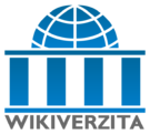 Czech language Wikiversity logo made by me PNG format